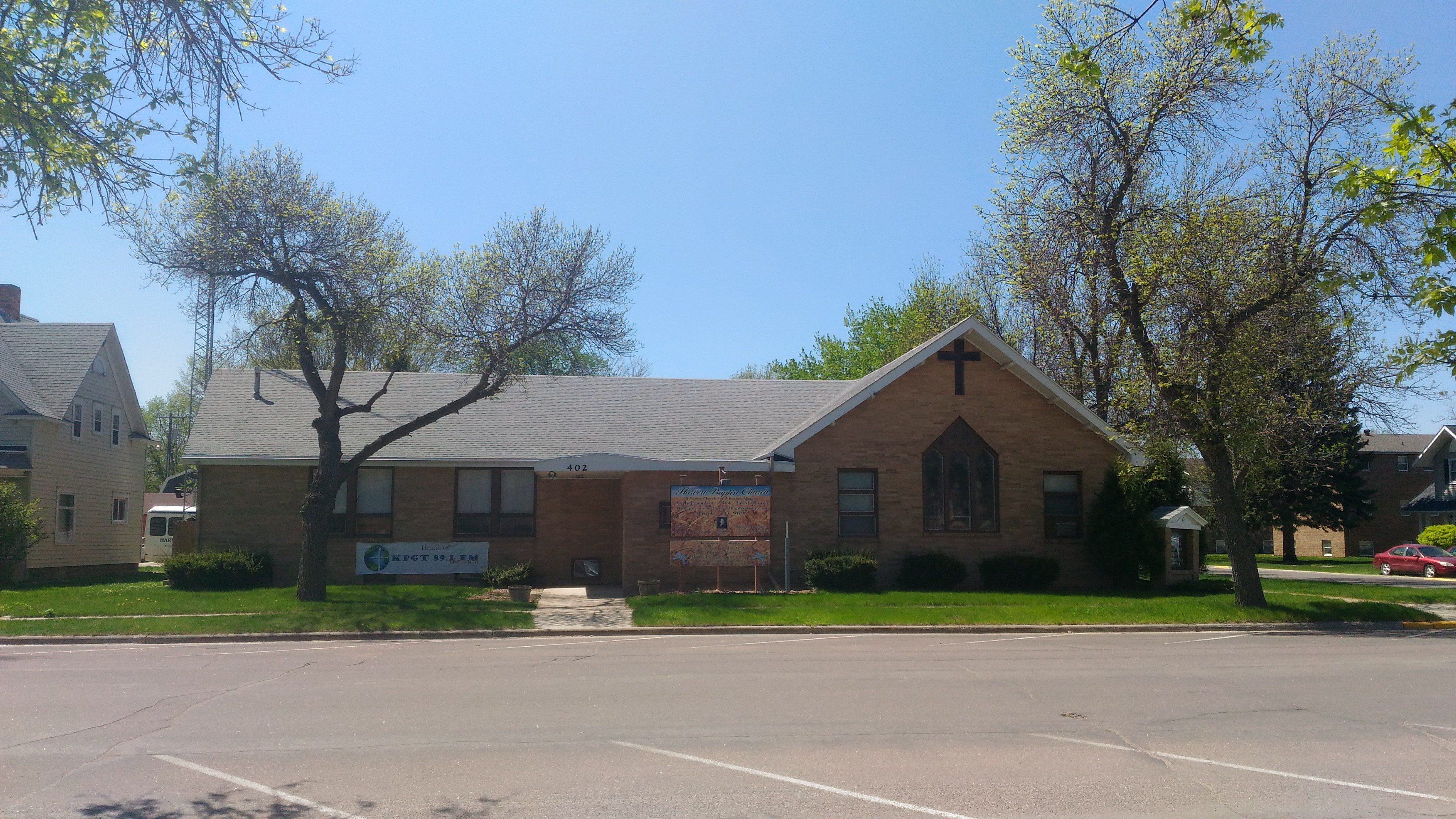 KPGT, Watertown, South Dakota. Taken with a mobile phone, 11 May 2017.